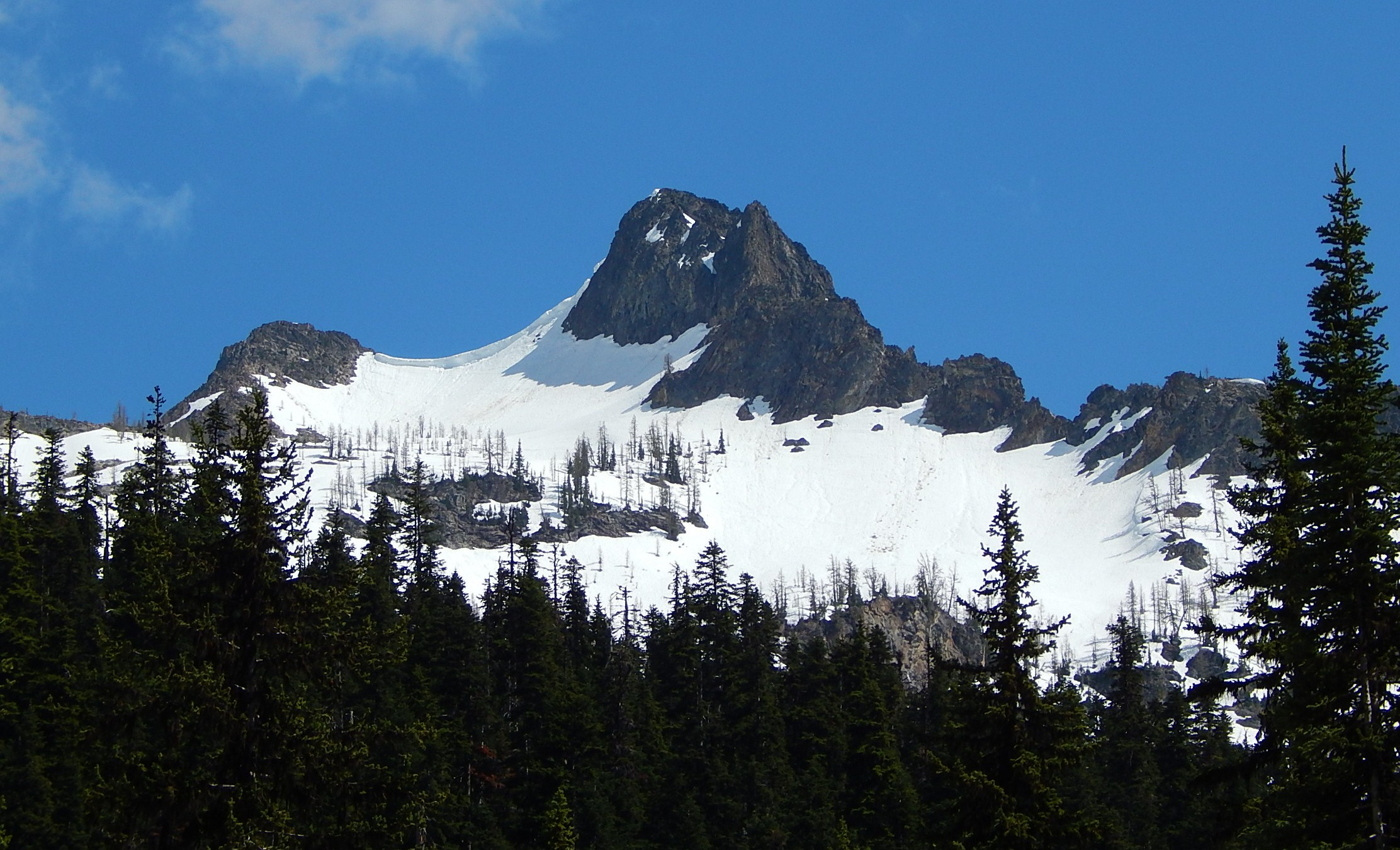 Blue Lake Peak 7820' seen from North Cascades Highway